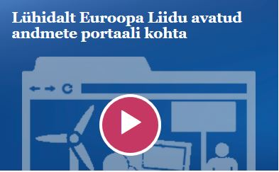 Screenshot from EUODP